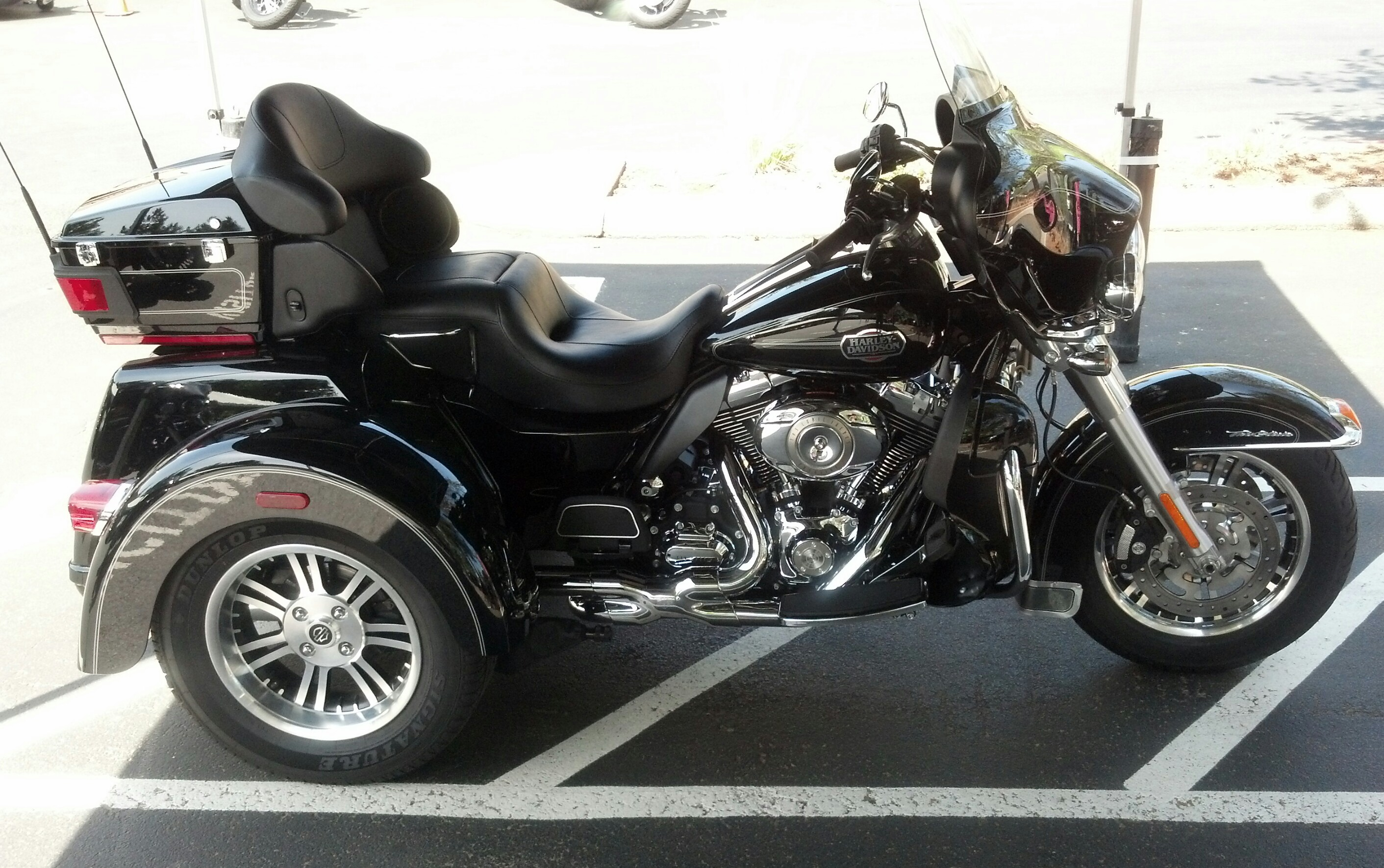 A Harley Davidson Tri Glide. Photo taken at Eastside H-D in Bellevue, Washington. Photo by Jim Heaphy.